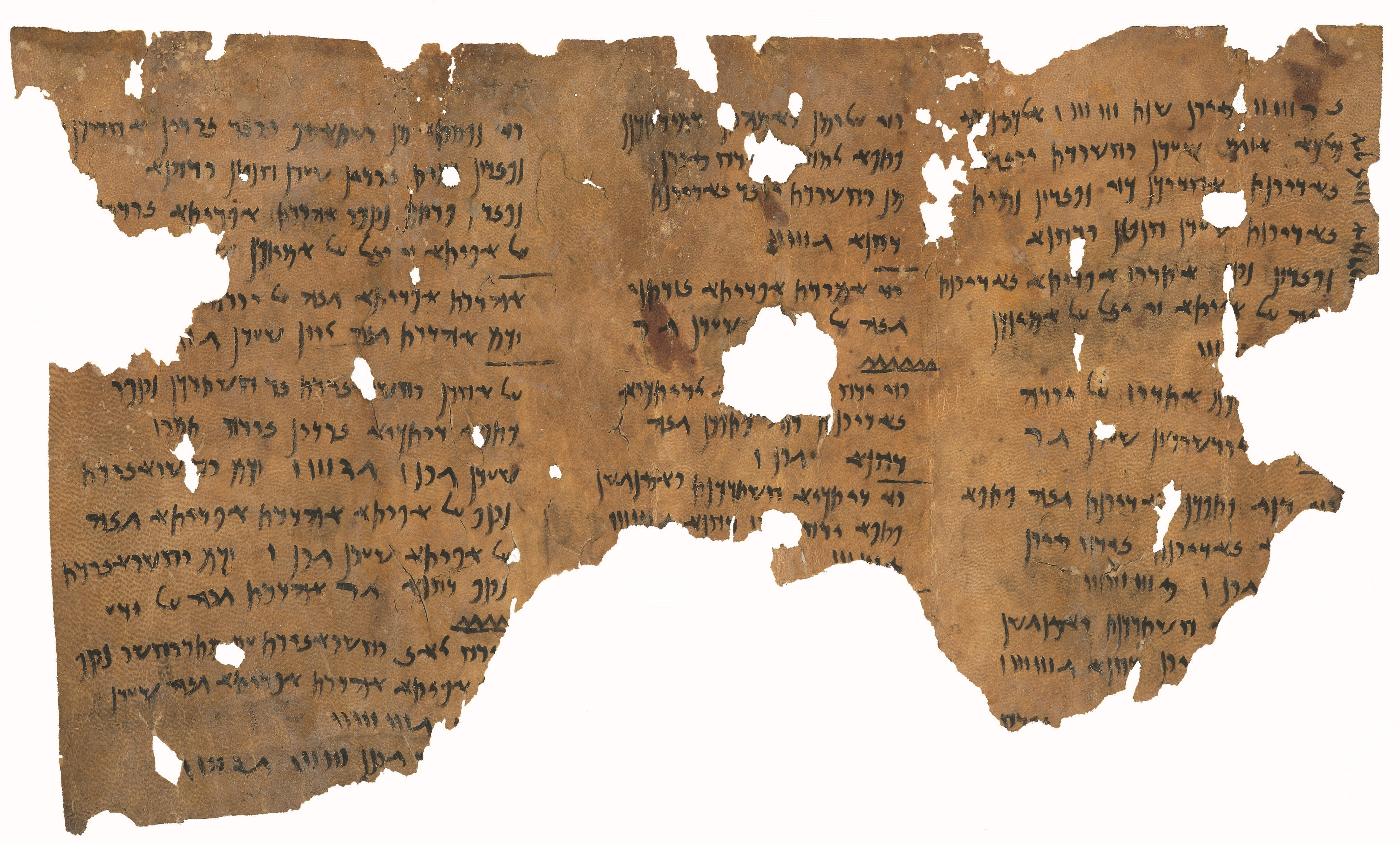 A Long List of Supplies Disbursed, Bactria, starts on 15 Sivan, year 7 of Alexander, corresponding to 8 June 324BC. Described at From the Nasser D. Khalili Collection of Aramaic Documents.